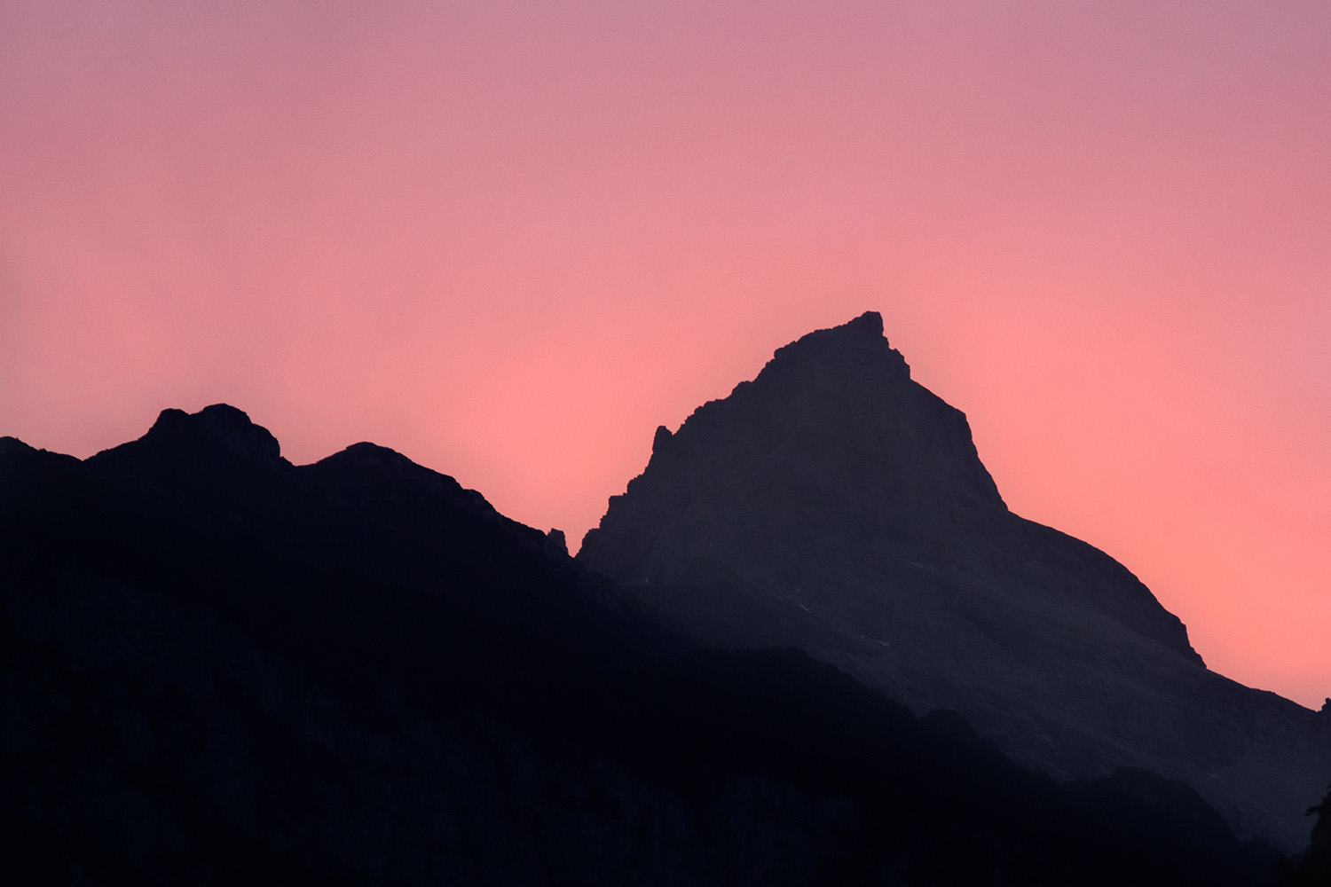 Sunset on Mount Duranno, after a storm. Cimolais, Friuli Venezia Giulia (PN)